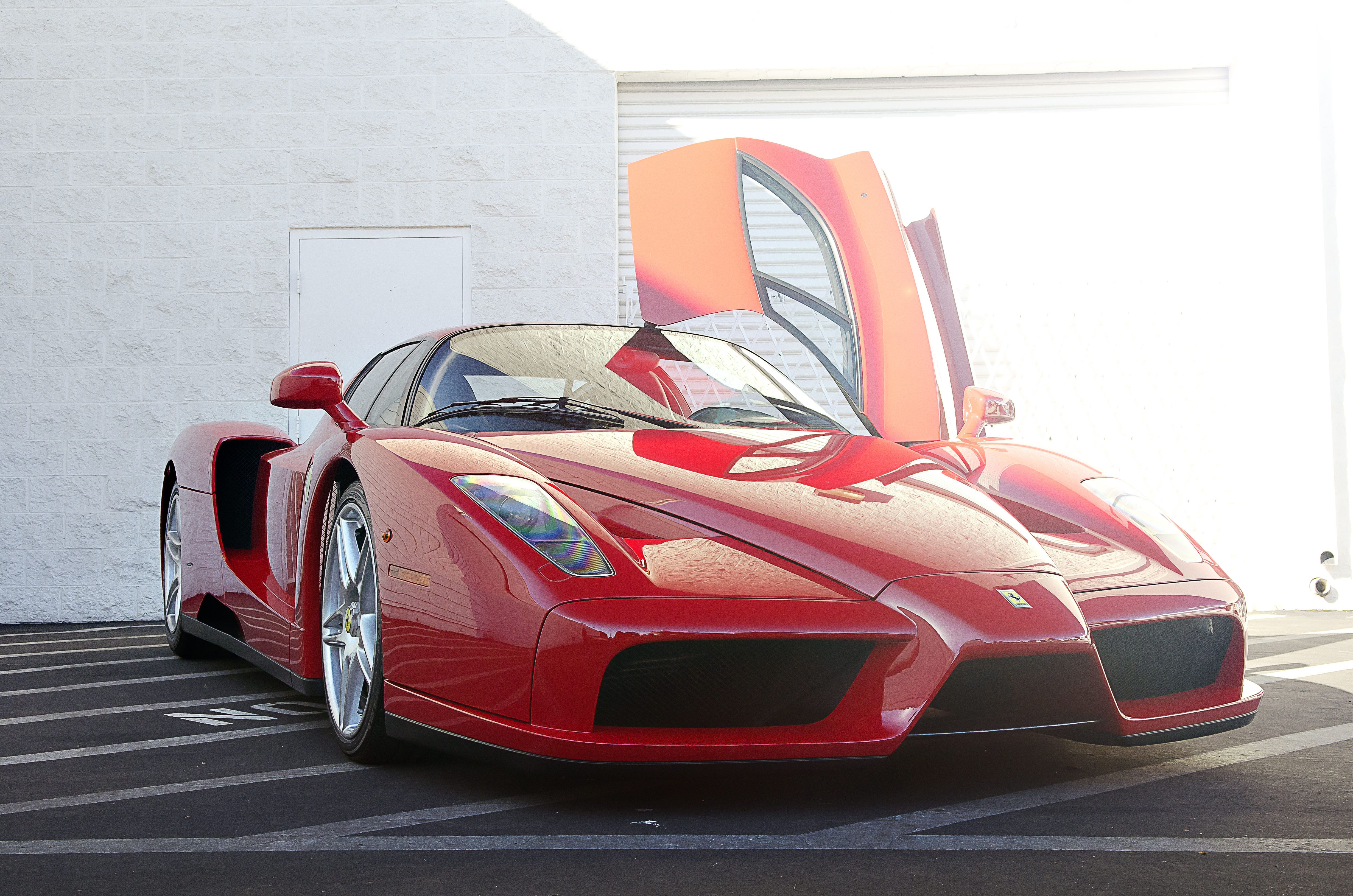 Rosso Corsa Enzo Ferrari at Lamborghini Newport Beach Cars and Coffee.